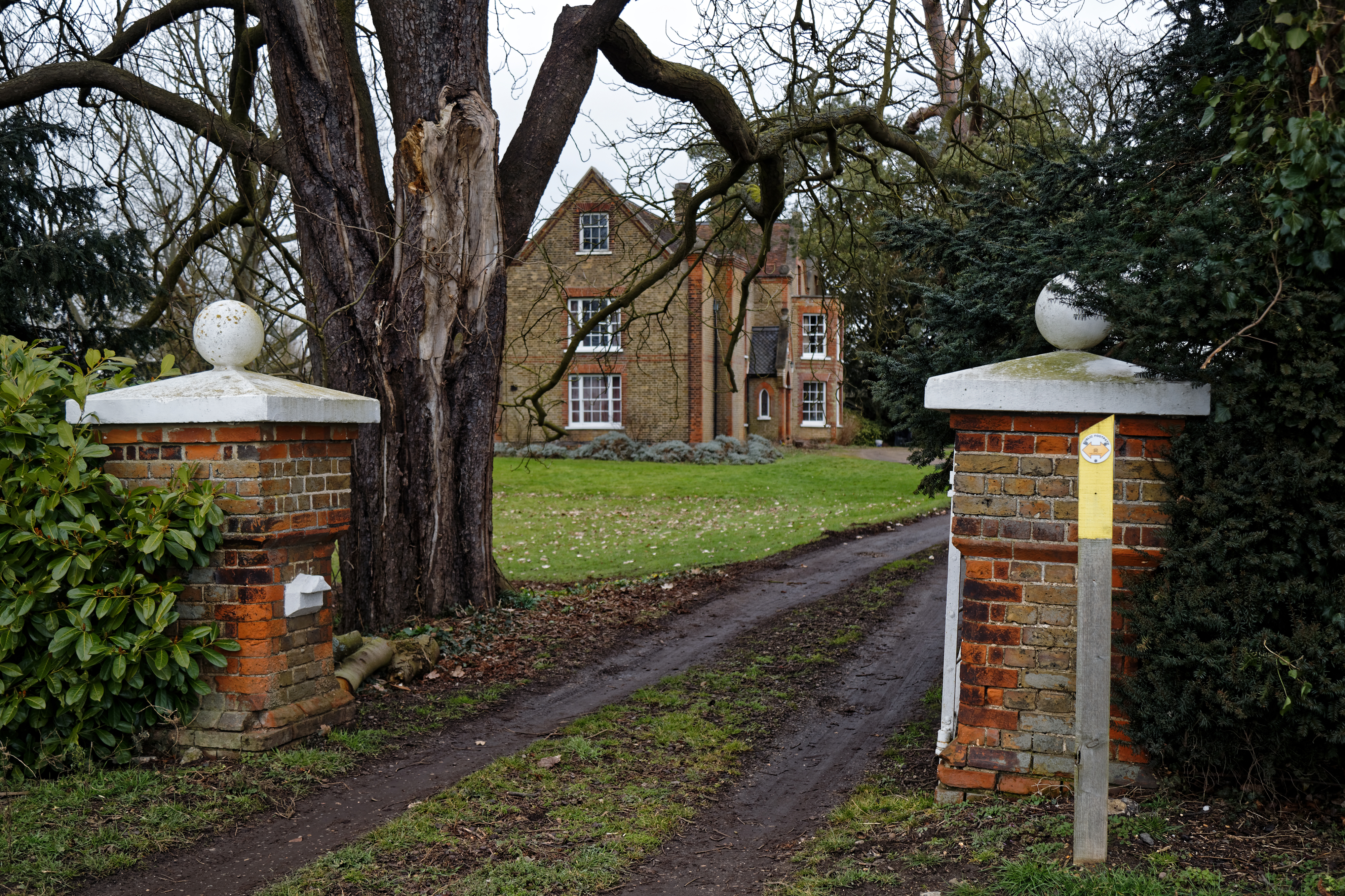 Grade II* listed 14th- to 19th-century Shelly Hall, to the west of St Peter's Church, Shelley, Essex, England.Camera: Canon EOS 6D Mark II with Canon EF 24-105mm F4L IS USM lens.Software: RAW file lens-corrected, optimized and converted to JPEG with DxO PhotoLab, and likely further optimized with Adobe Photoshop CS2.